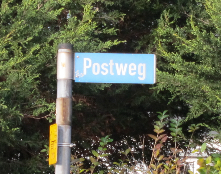 Street sign of the old Postweg in Sterkrade